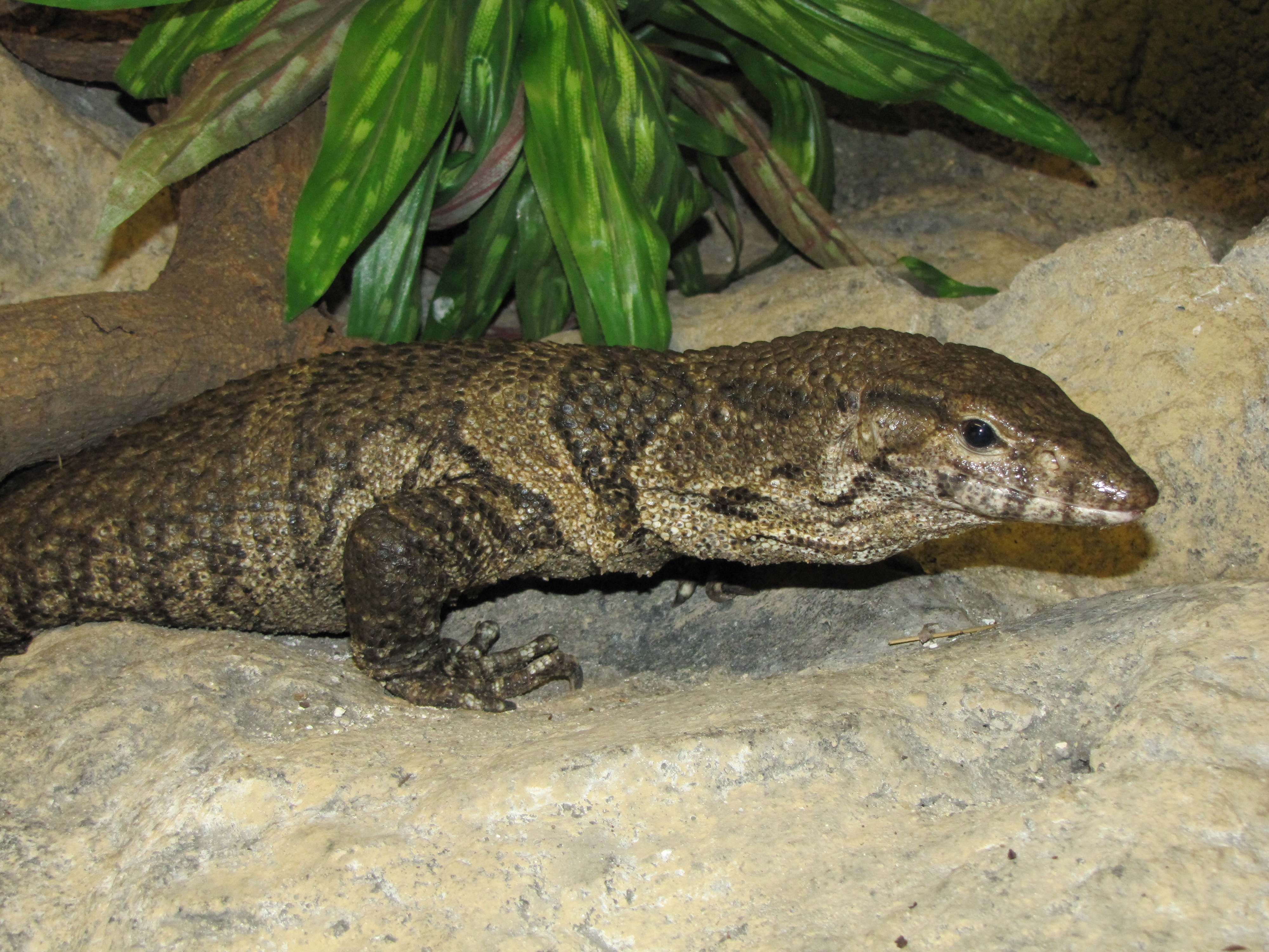 Varanus dumerilii, exhibited in Sofia Zoo